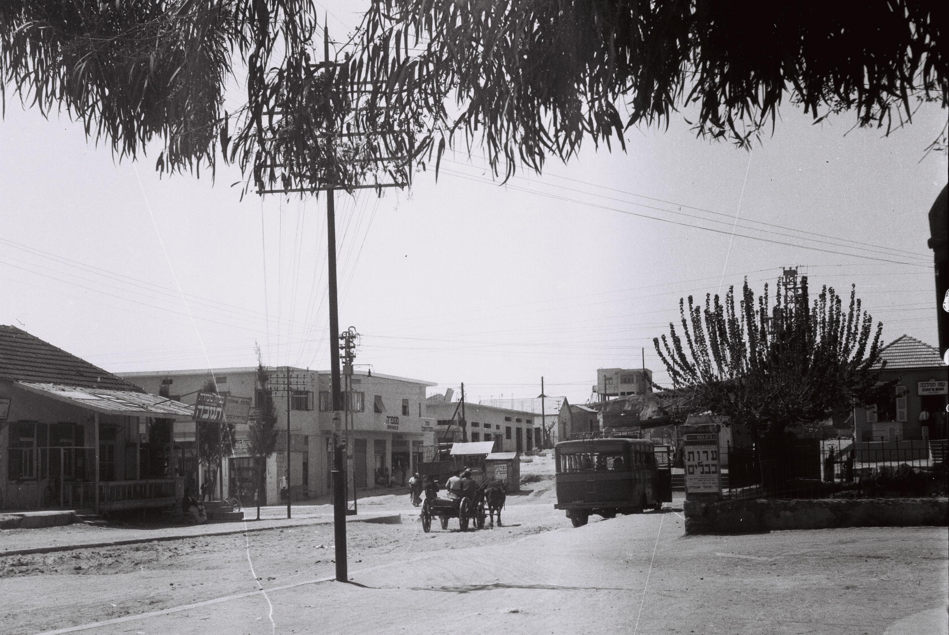 MAIN STREET IN REHOVOT. הרחוב הראשי ברחובות.